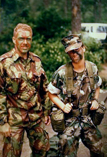 An NCO of the Bermuda Regiment with a female US Navy Hospital Corpsman (medic), attached to the Bermuda Regiment's Potential Non-Commissioned Officer (PNCO) Cadre from the USNAS Bermuda, training at the US Marines' Camp Lejeune in 1994.